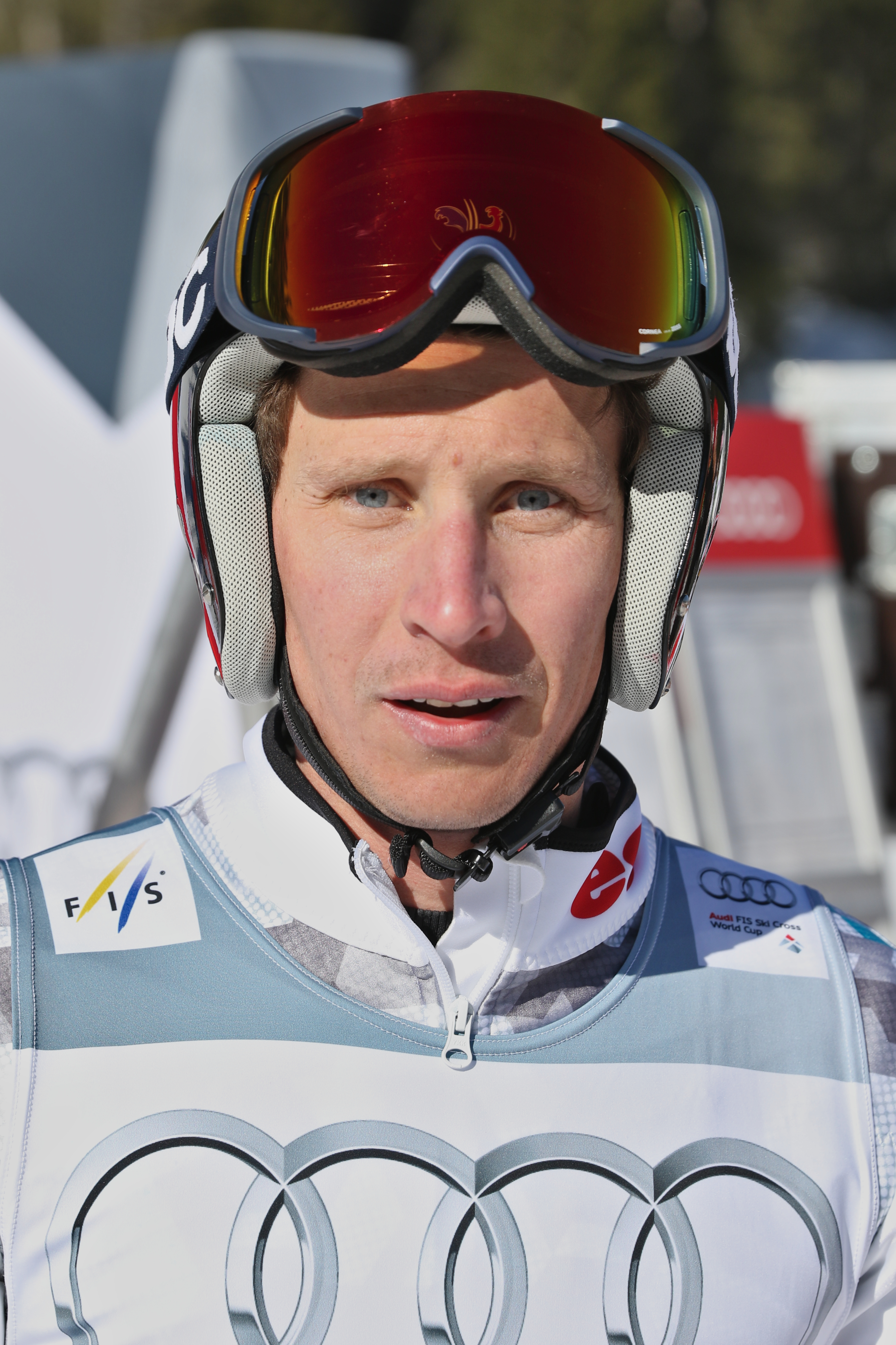 FIS Ski Cross World Cup 2015 - Megève - 20150313 - Jonathan Midol